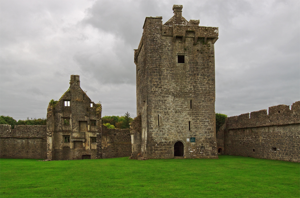 Castles of Connacht: Pallas, Galway. This fine early C16 tower now under the care of the state was built by the Burkes and later held by the Nugents. Standing next to the tower are the remnants of a later house near a corner of the well preserved bawn wall.